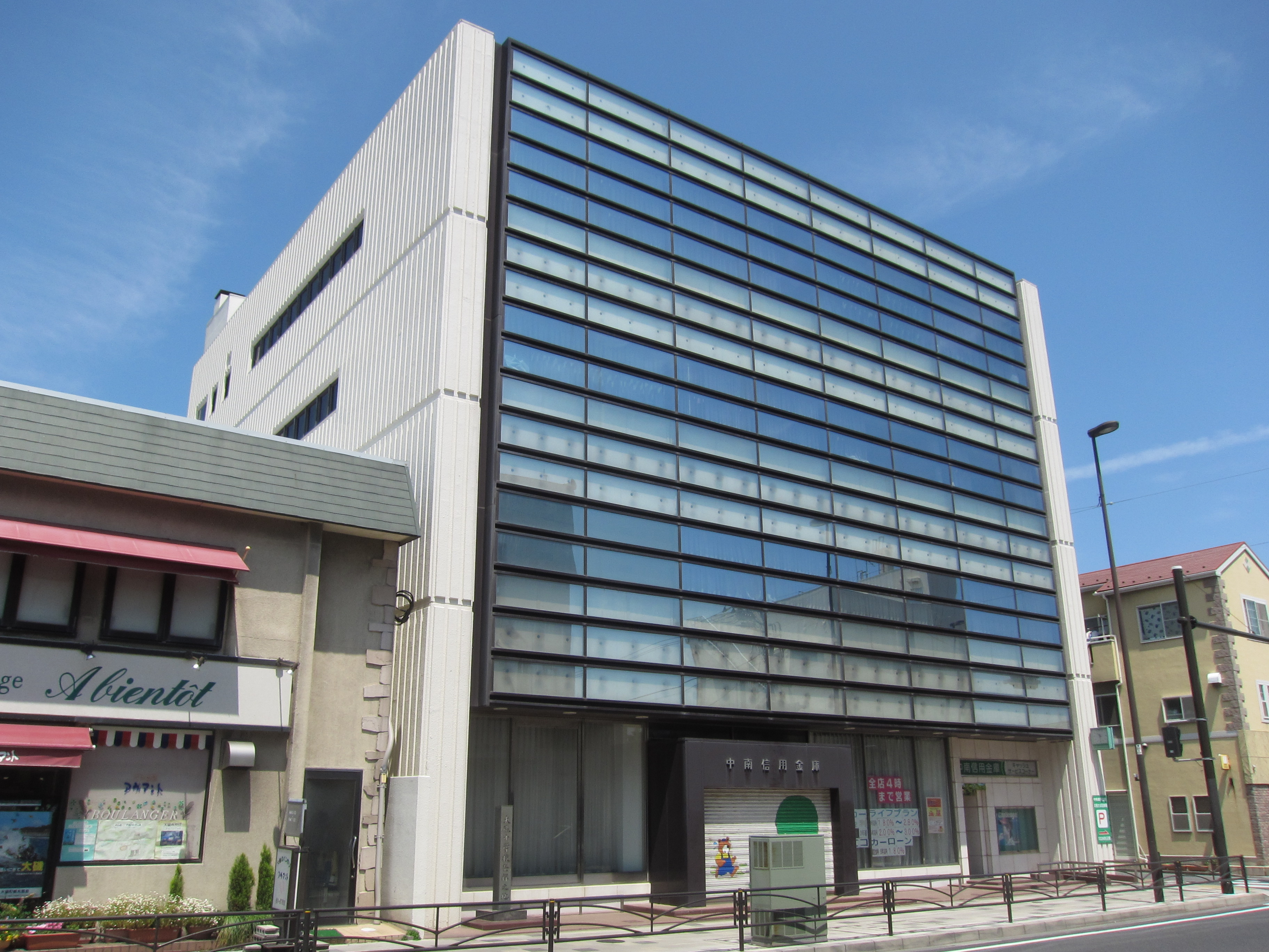 Chunan Shinkin Bank